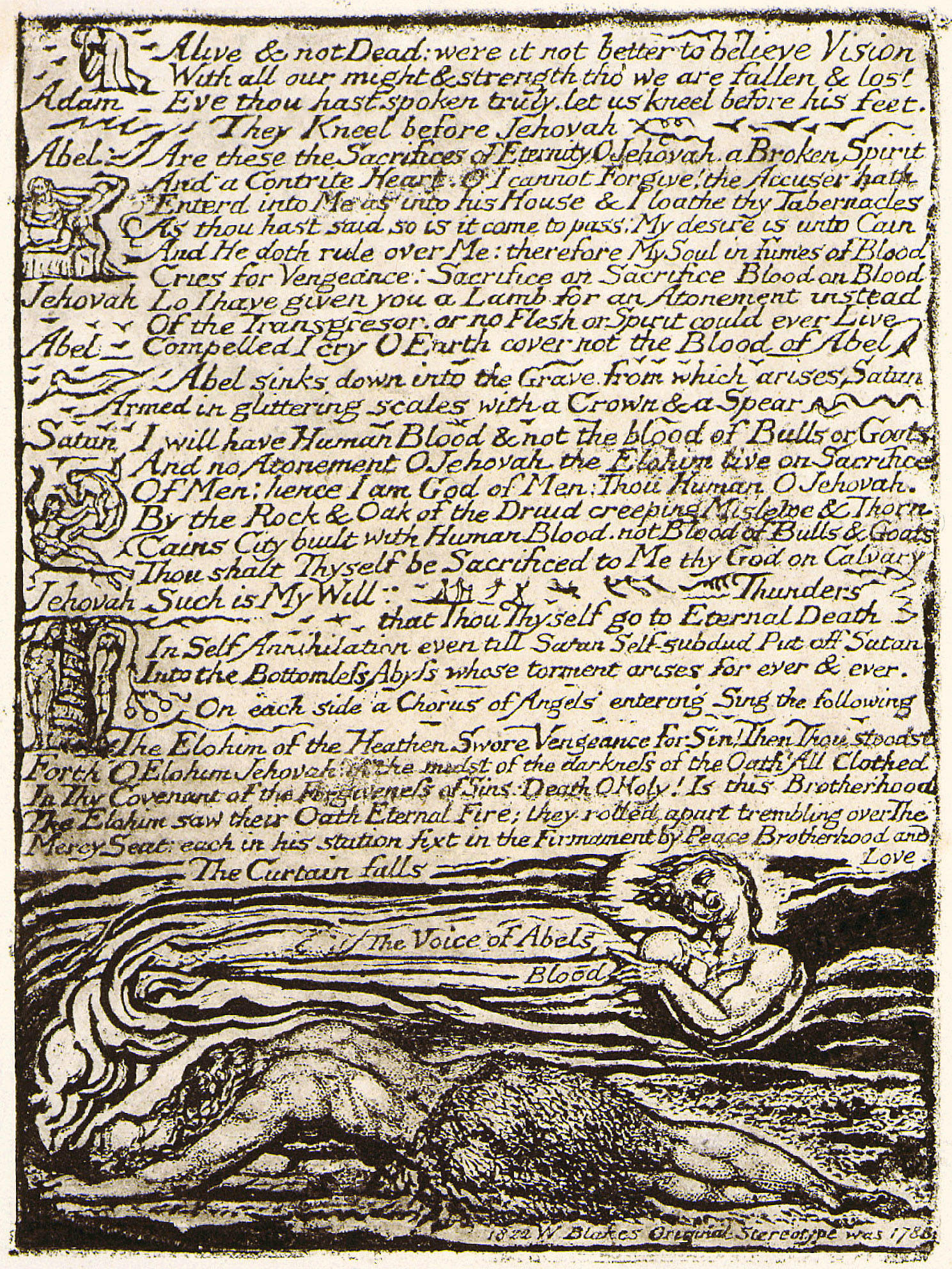 Page two of William Blake's last illuminated manuscript, The Ghost of Abel